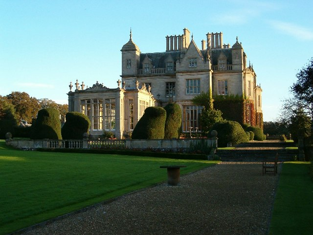 Dawn at Stoke Rochford Hall. Taken from the gardens to the south of the hall before the devastating fire.